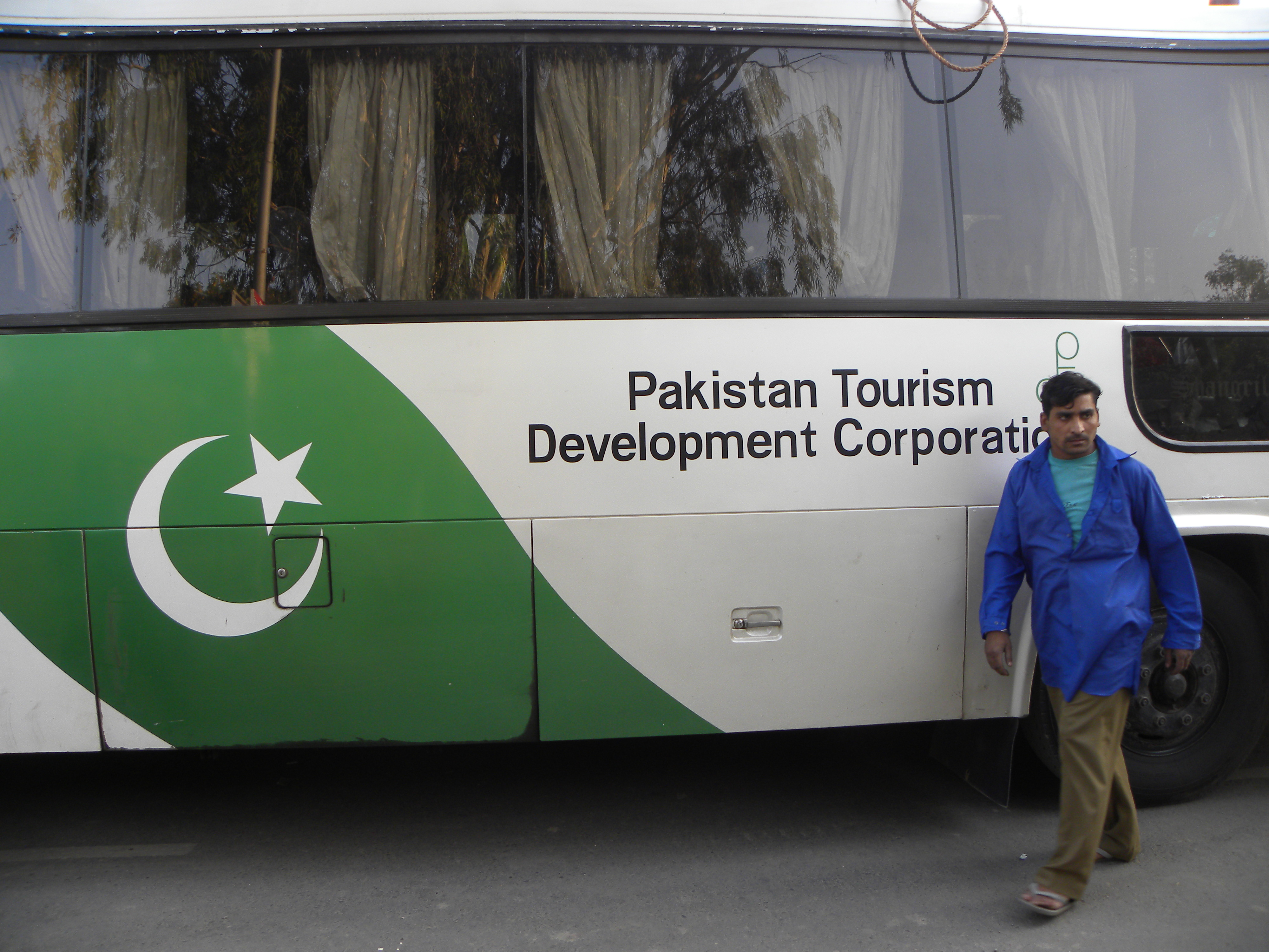 The Delhi-Lahore Bus is a passenger bus service connecting the Indian capital of Delhi with the city of Lahore, Pakistan via the border transit post at Wagah, which is the only border crossing point between India and Pakistan opened for international travelers. The bus was of symbolic importance to the efforts of the governments of both nations to foster peaceful and friendly relations.[7] In its inaugural run on February 19, 1999, the bus carried the then-Indian Prime Minister Atal Bihari Vajpayee, who was to attend a summit in Lahore and was received by his Pakistani counterpart, Nawaz Sharif at Wagah.[7][8] Its official name is the Sada-e-Sarhad (Urdu for Call of the Frontier).[8] The duration of the entire journey is 8 hours, covering a distance of 530 km (329 mi).[9] While the bus service had continued to run during the Kargil War of 1999, it was suspended in the aftermath of the 2001 Indian Parliament attack on December 13, 2001, which the Indian government accused Pakistan of instigating.[10] The bus service was resumed on July 16, 2003 when bilateral relations had improved.[8]